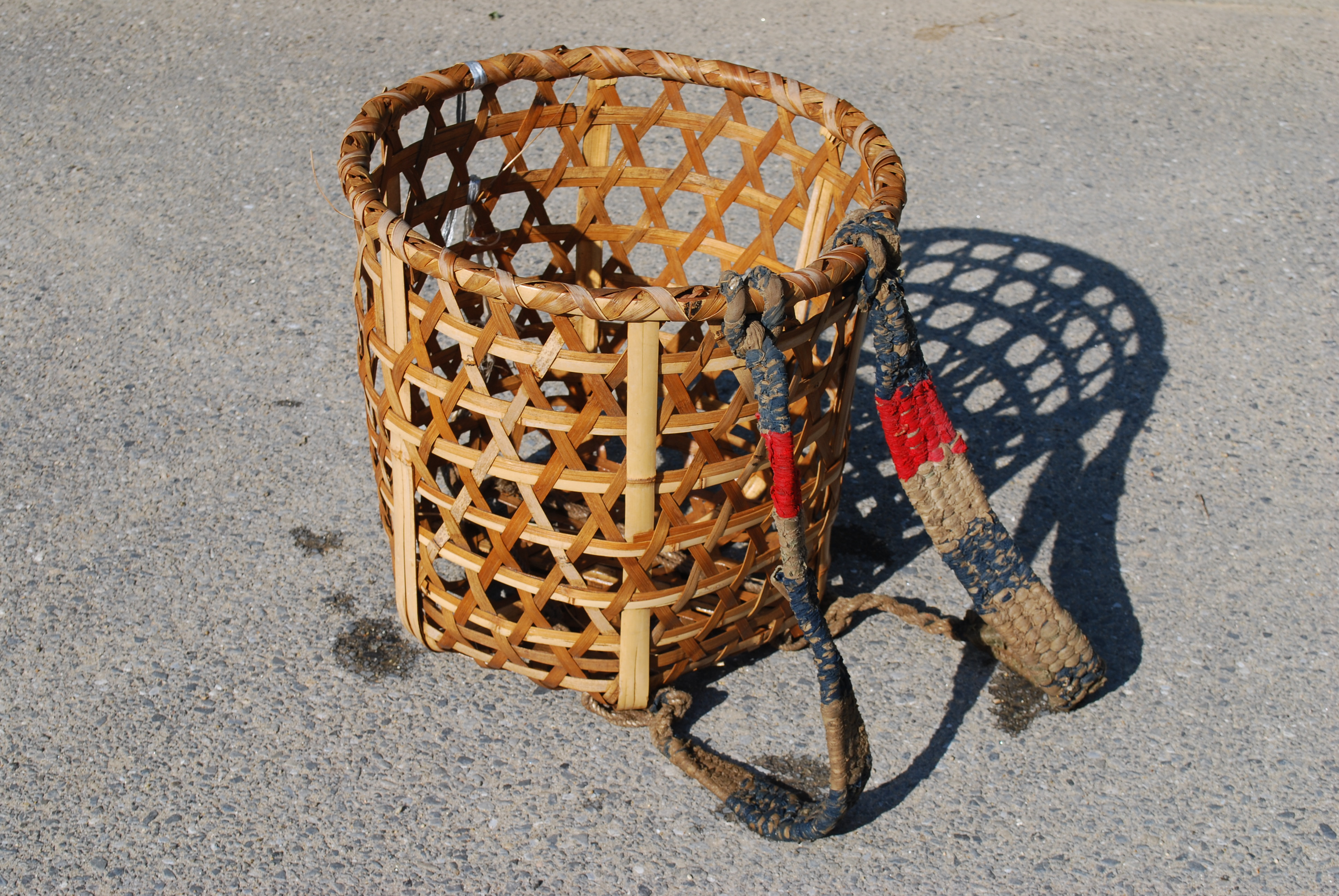 Basket to carry on its back for farming,Shoi-kago,Katori-city,Japan.